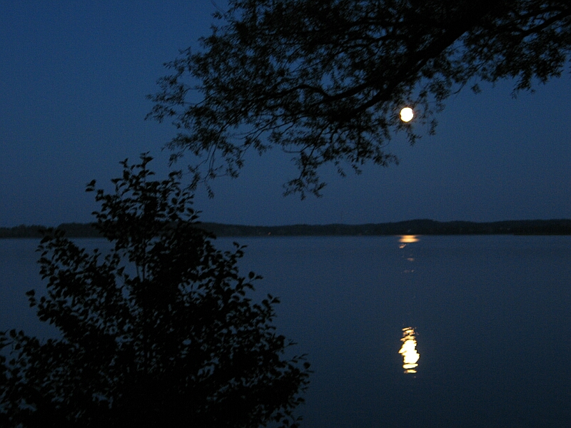 Lake Laśmiady in Poland